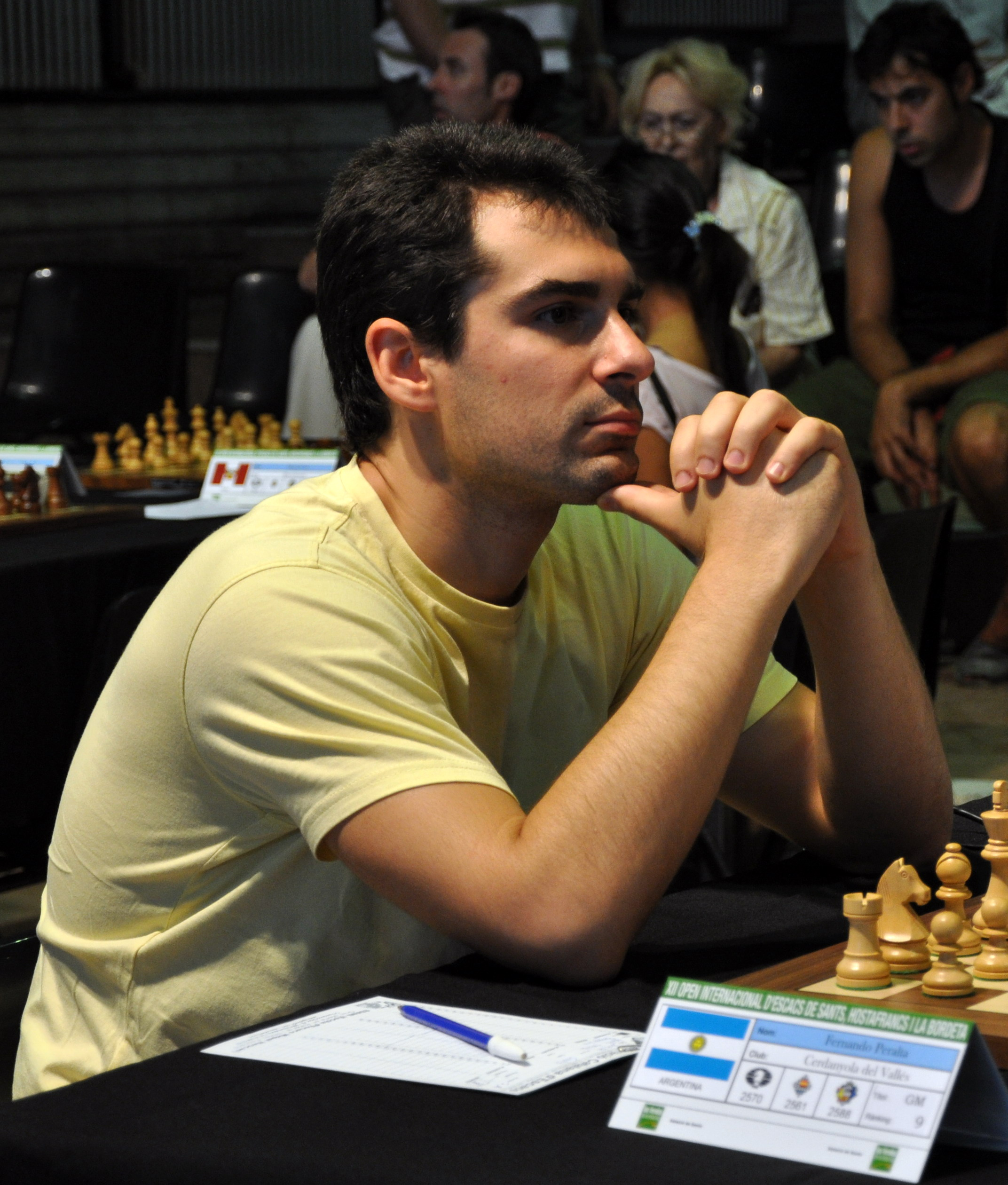 GM Fernando Peralta (Argentina), XII Open Internacional de Sants, Hostafrancs i la Bordeta Grup A, Barcelona 2010